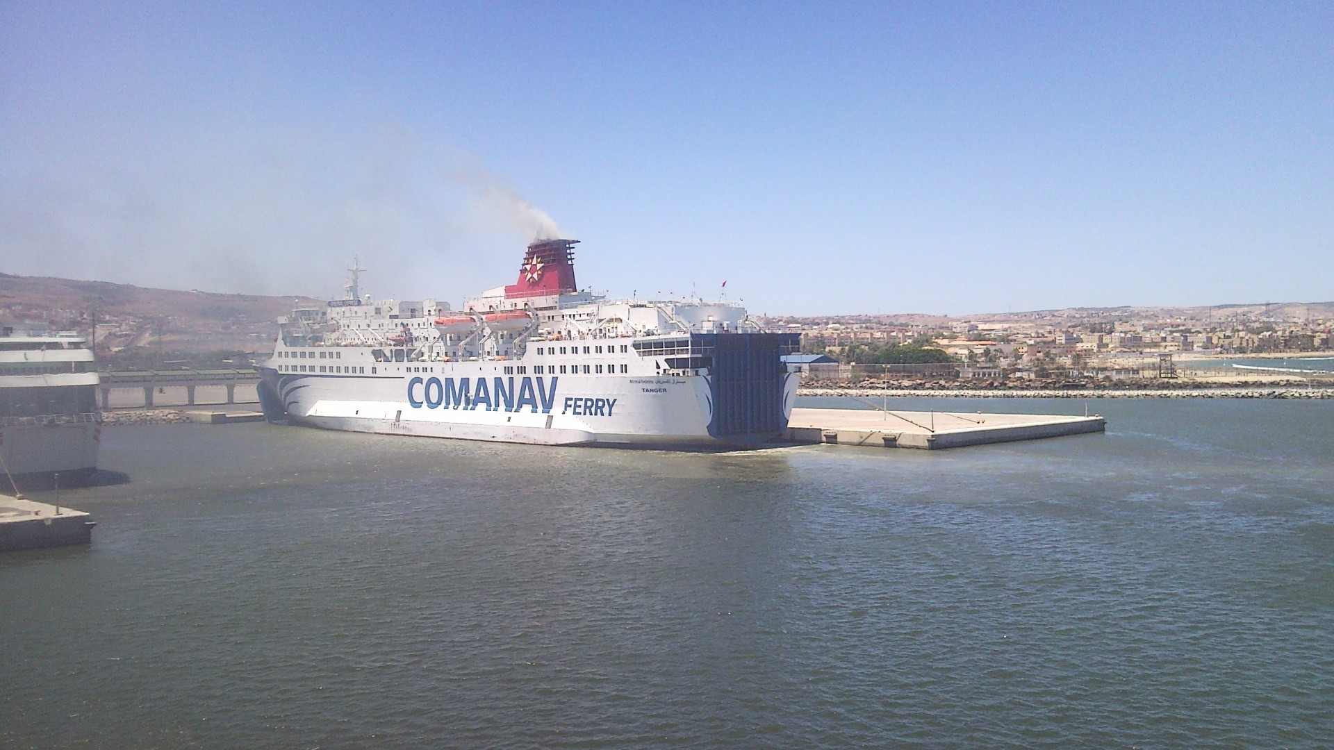 Ferries in the port of Nador. The city on the right hand side of the picture is Melilla